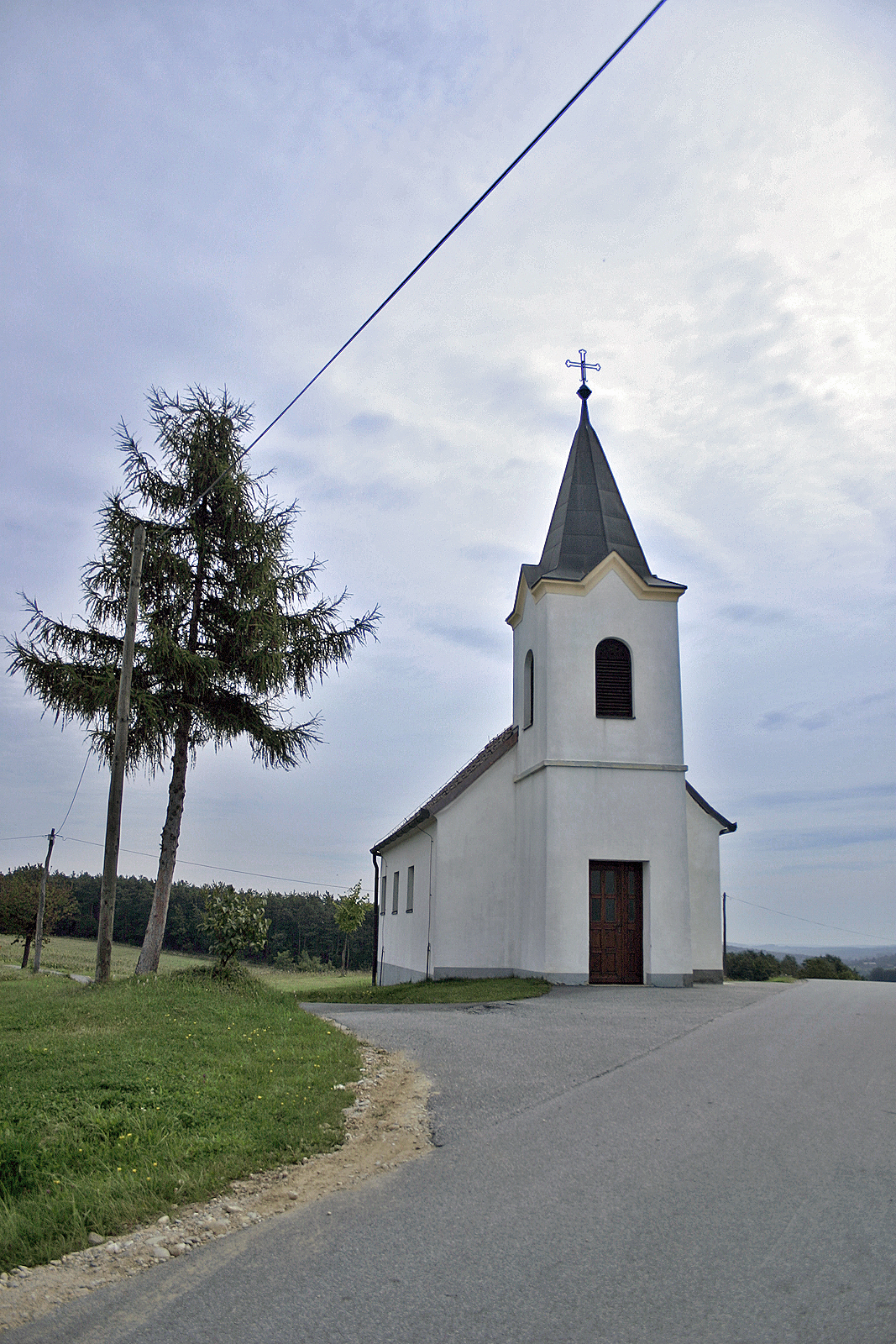 Vuk Chapel, Vidonci.